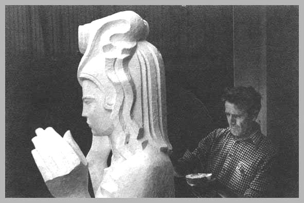 picture of Ralph Stackpole with a model of the Pacifica Statue